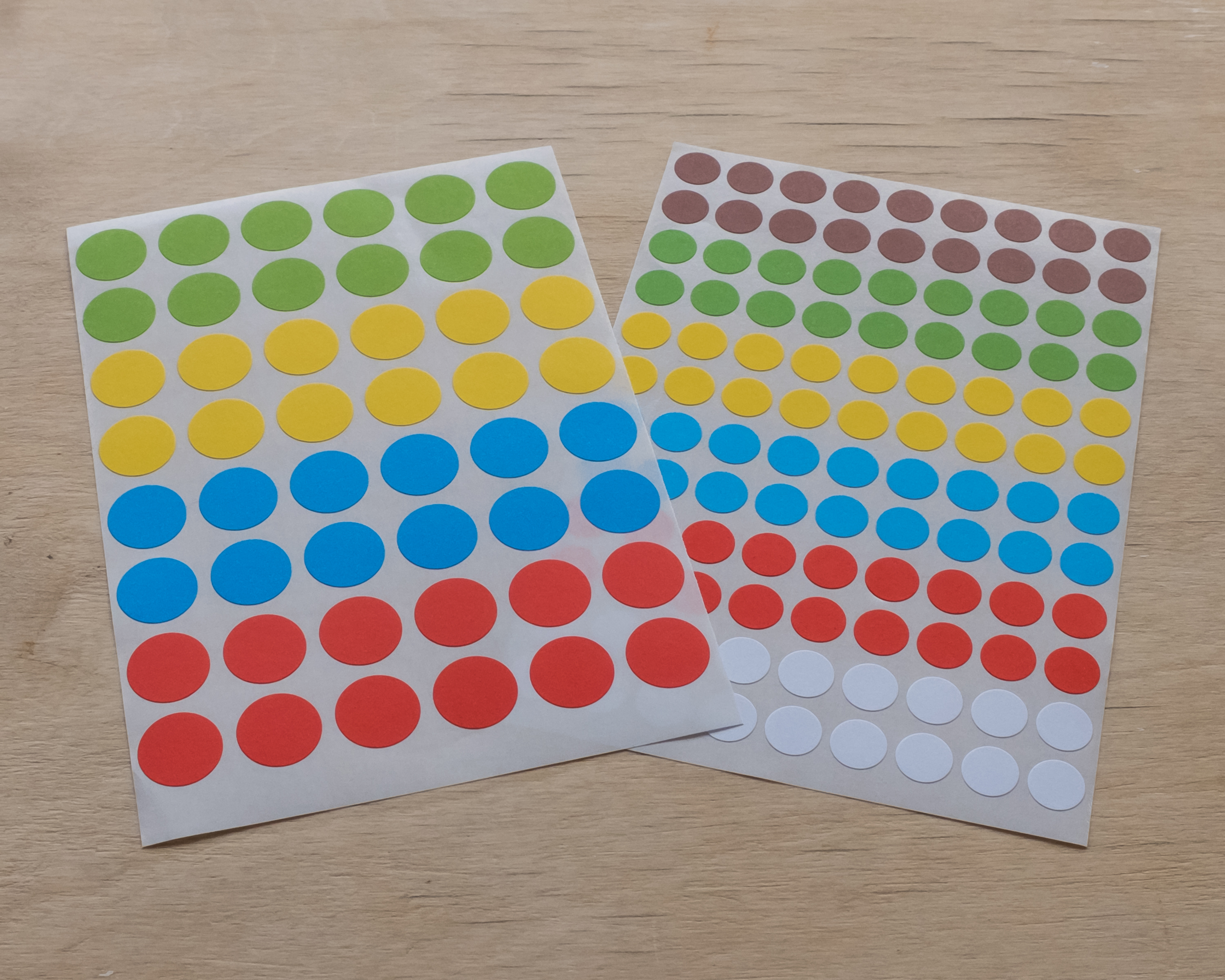 Two sheets of small and large dot stickers